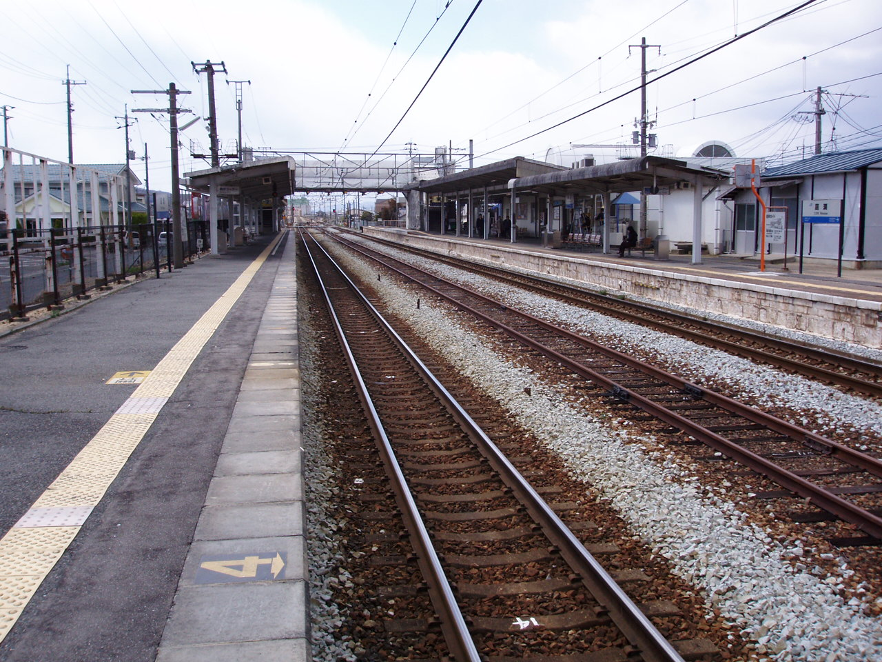 West Japan Railway Sanyo Main Line Niwase Station Platform 西日本旅客鉄道 山陽本線 庭瀬駅 駅ホーム